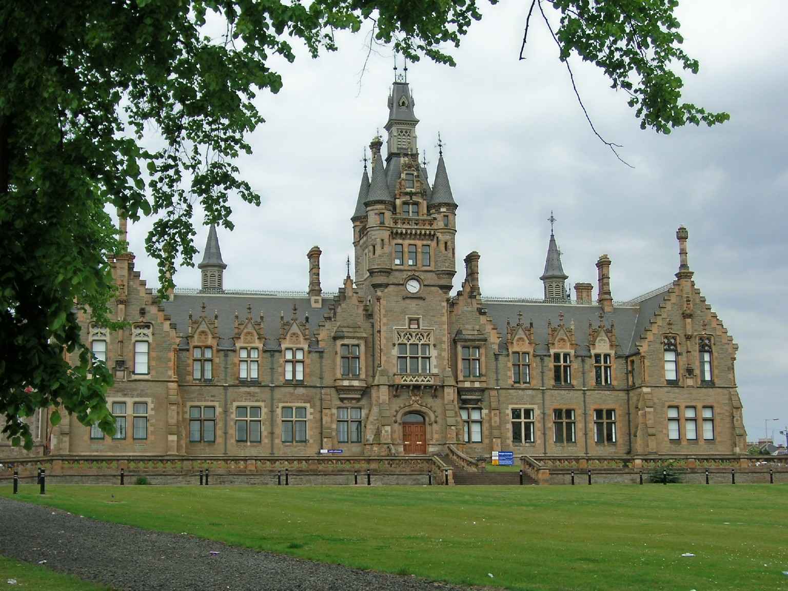 Morgan Academy, A secondary school in the city of dundee